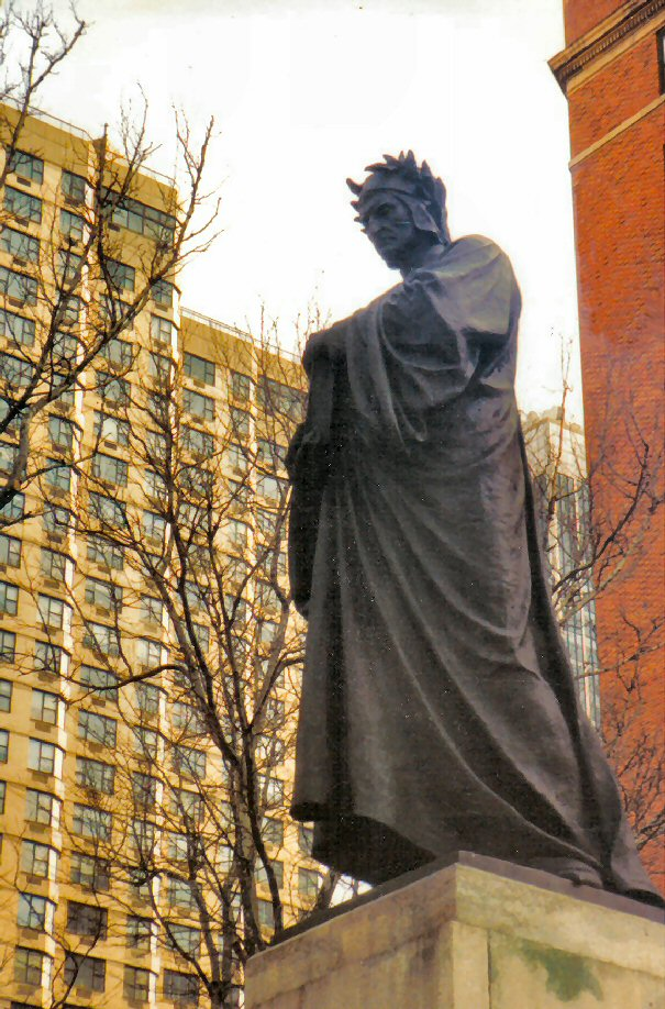 Statue of Italian Middle Ages author and poet Dante Alighieri (1265–1321). The statue is located opposite the Lincoln Center for the Performing Arts, New York